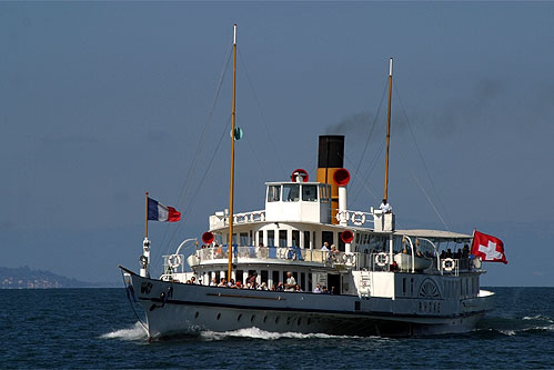 Vevey: Steamboat "Rhône", Vevey, Switserland